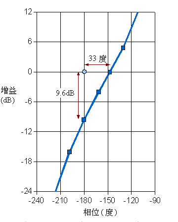 Nichols chart with Phase Margin and Gain Margin